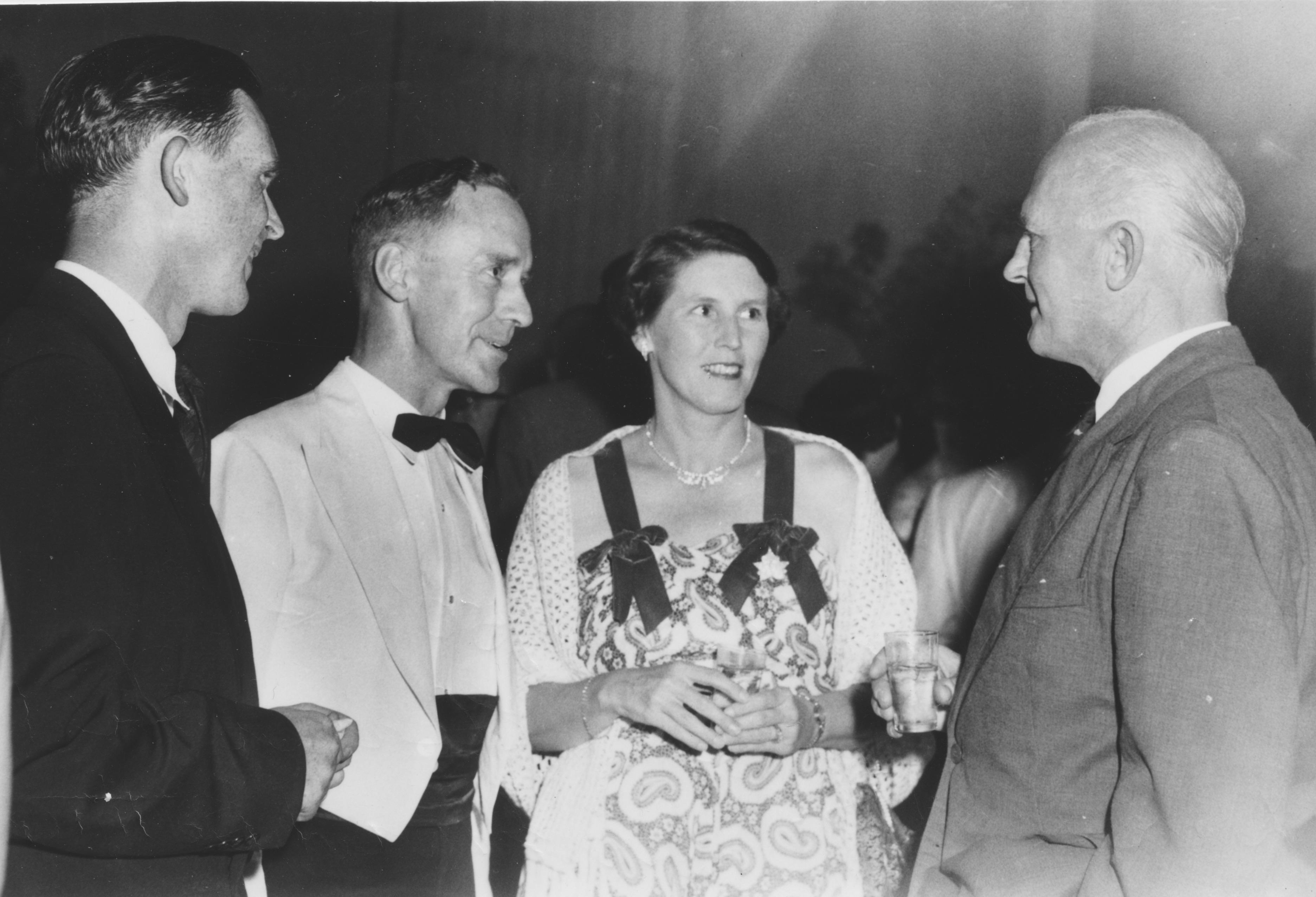 Photo taken at social function, Government House, Port of Spain, Trinidad in 1967